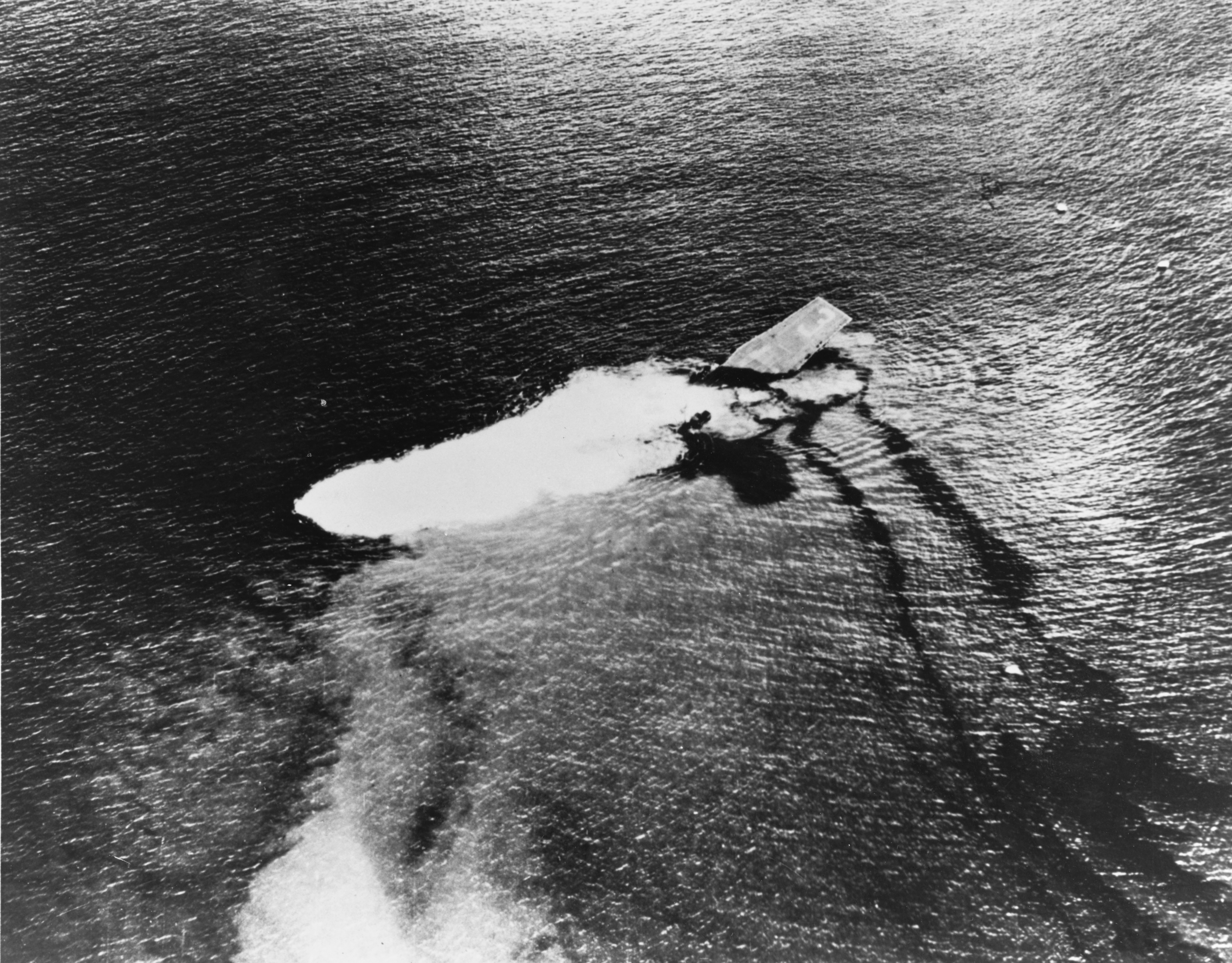 The U.S. Navy aircraft carrier USS Saratoga (CV-3) sinking in Bikini Atoll lagoon after she was fatally damaged by the "Baker" underwater atomic bomb test, 25 July 1946. Note her hull number "3" still visible at the front of her flight deck, air escaping from her submerged hull and oil streaming away to starboard.